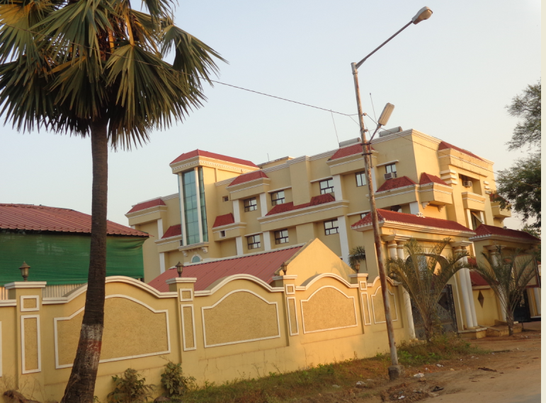 Alishan marriage palace